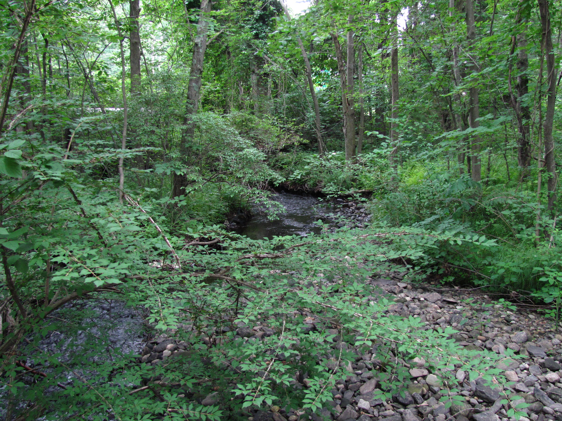 Wekepeke Brook at MA Route 12, Sterling Massachusetts